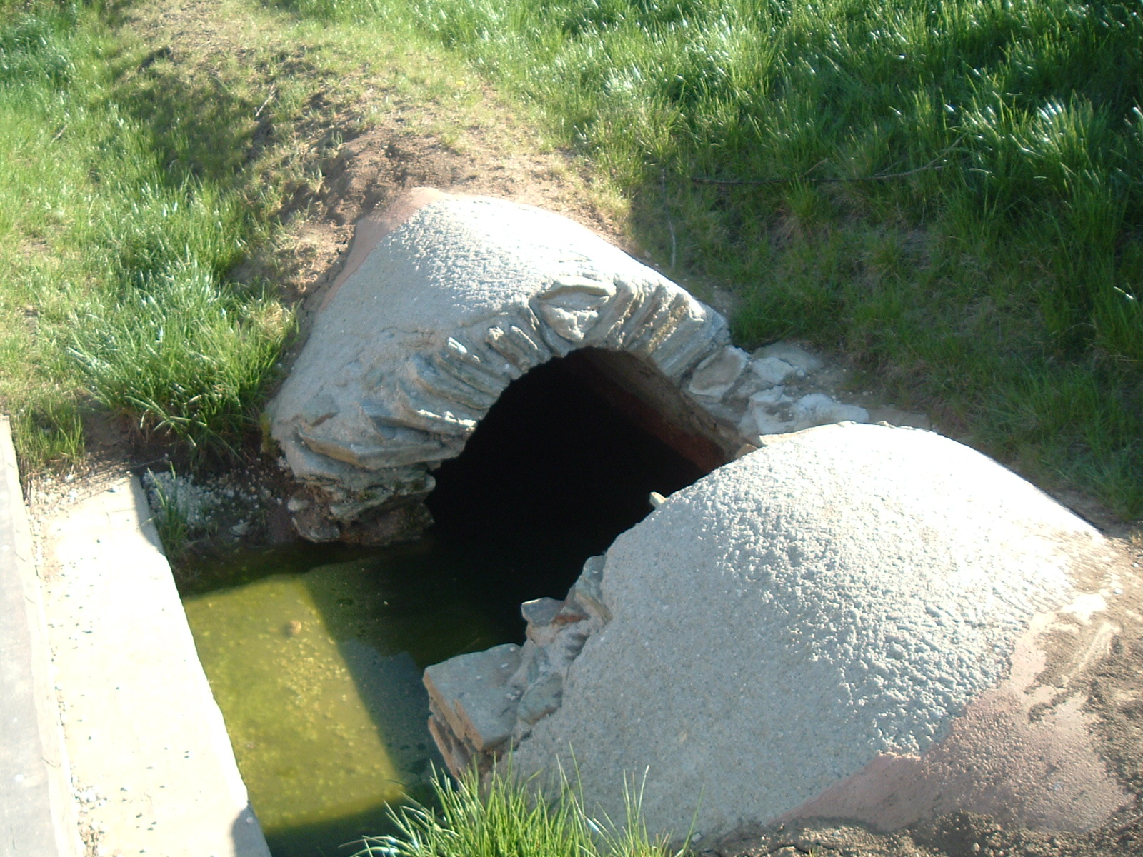 The ruins of the ancient roman water-conduit in Bucsu, Hungary